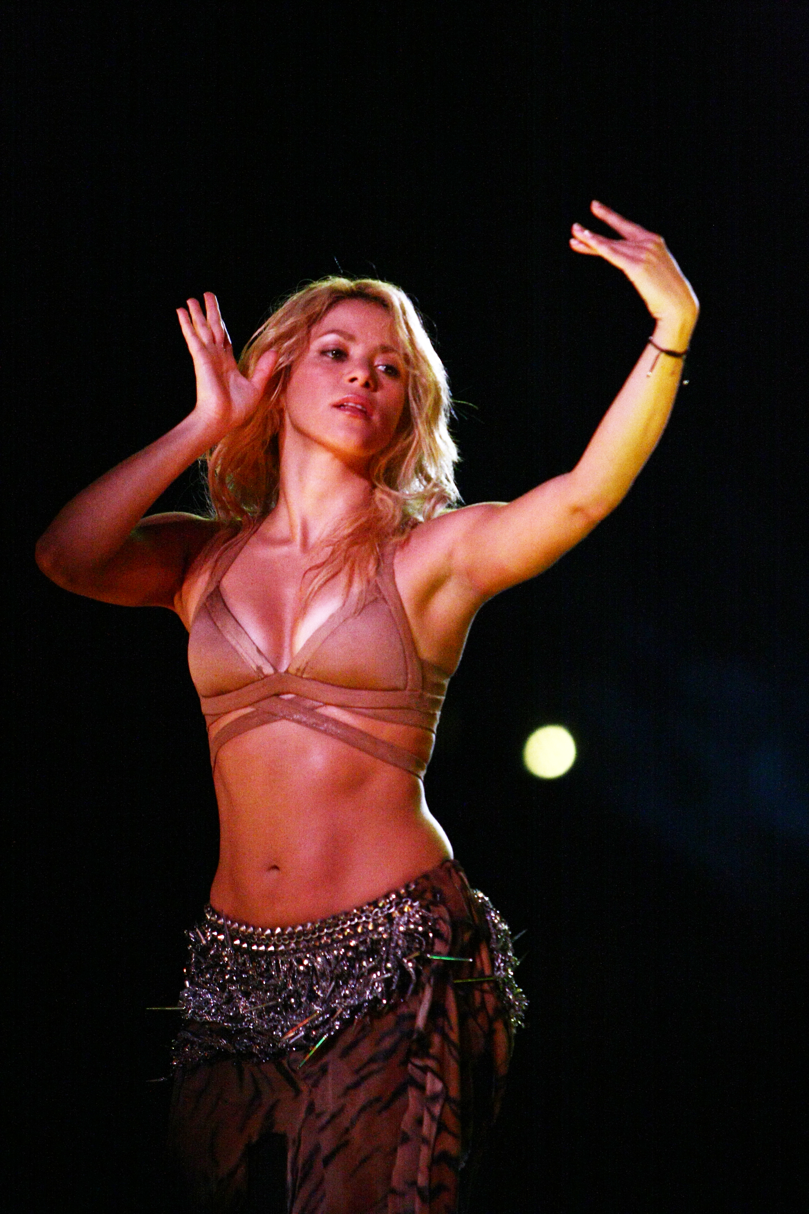 Shakira on stage in Singapore Marina Bay Circuit concert. This picture is my brother's fajar dot fieryanto at yahoo dot com, he release this on CC-BY-SA